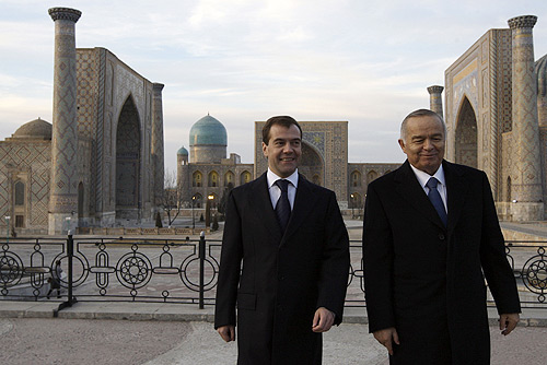 SAMARKAND. With President of Uzbekistan Islam Karimov on Registan Square.